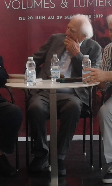 Roger Taillibert (photographed by me over a month from his death) photographed in Repentigny, Quebec, Canada inside the Diane Dufresne Arts Centre. I began digging one of my photos of him to honour his death, and a day after he died, his photo now lands on Wikimedia Commons. I don't believe why shortly after his death a fair image of him was not uploaded on the English Wikipedia page.